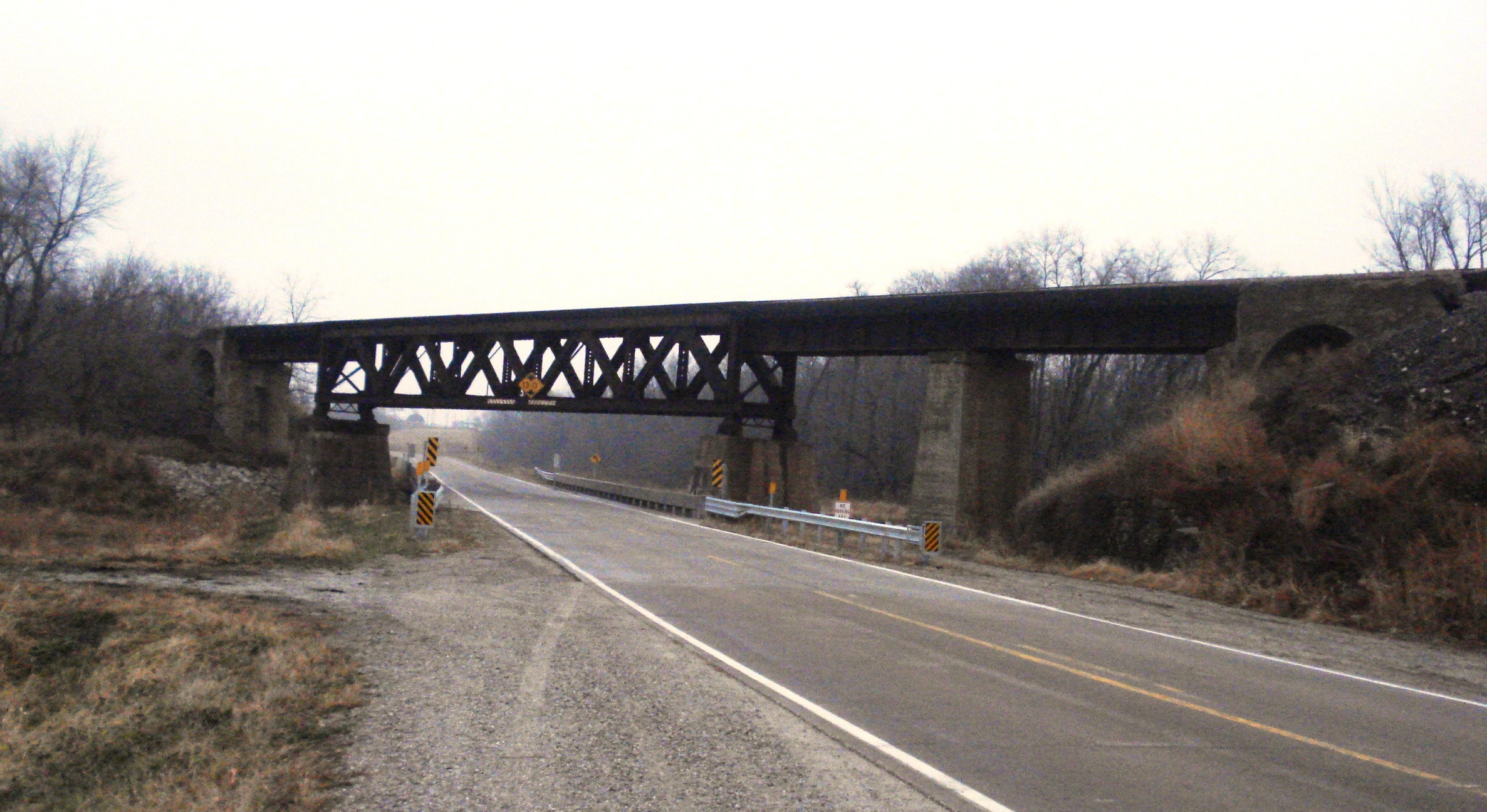 County Road G38 over the Soo Railroad line. Outside Washington, Iowa.